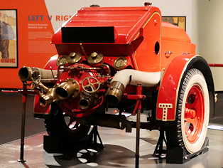 Imperial War Museum North, Dennis Fire Fighting Trailer